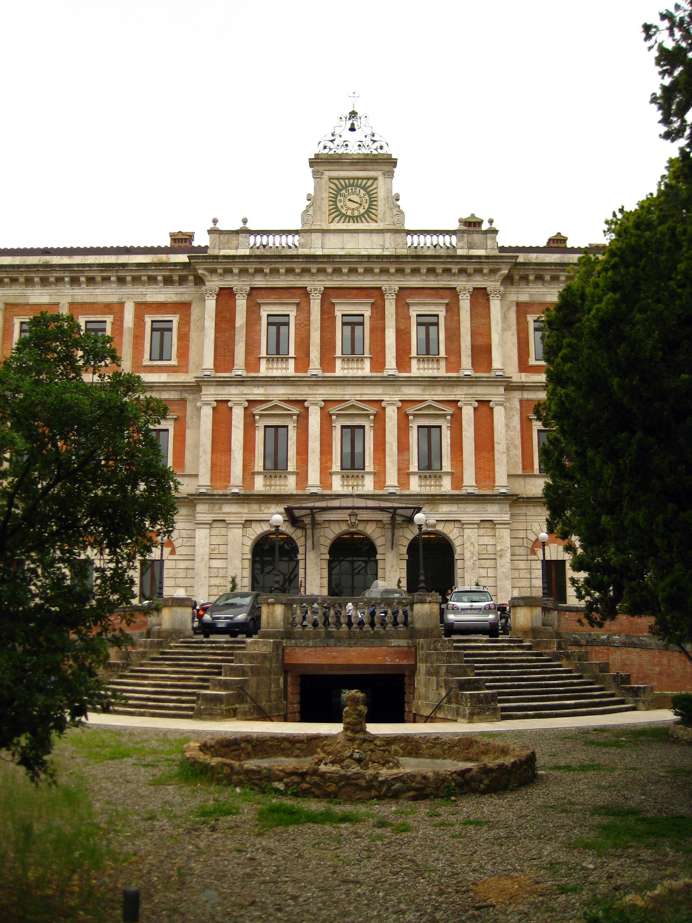 San Niccolo Palace, University of Siena